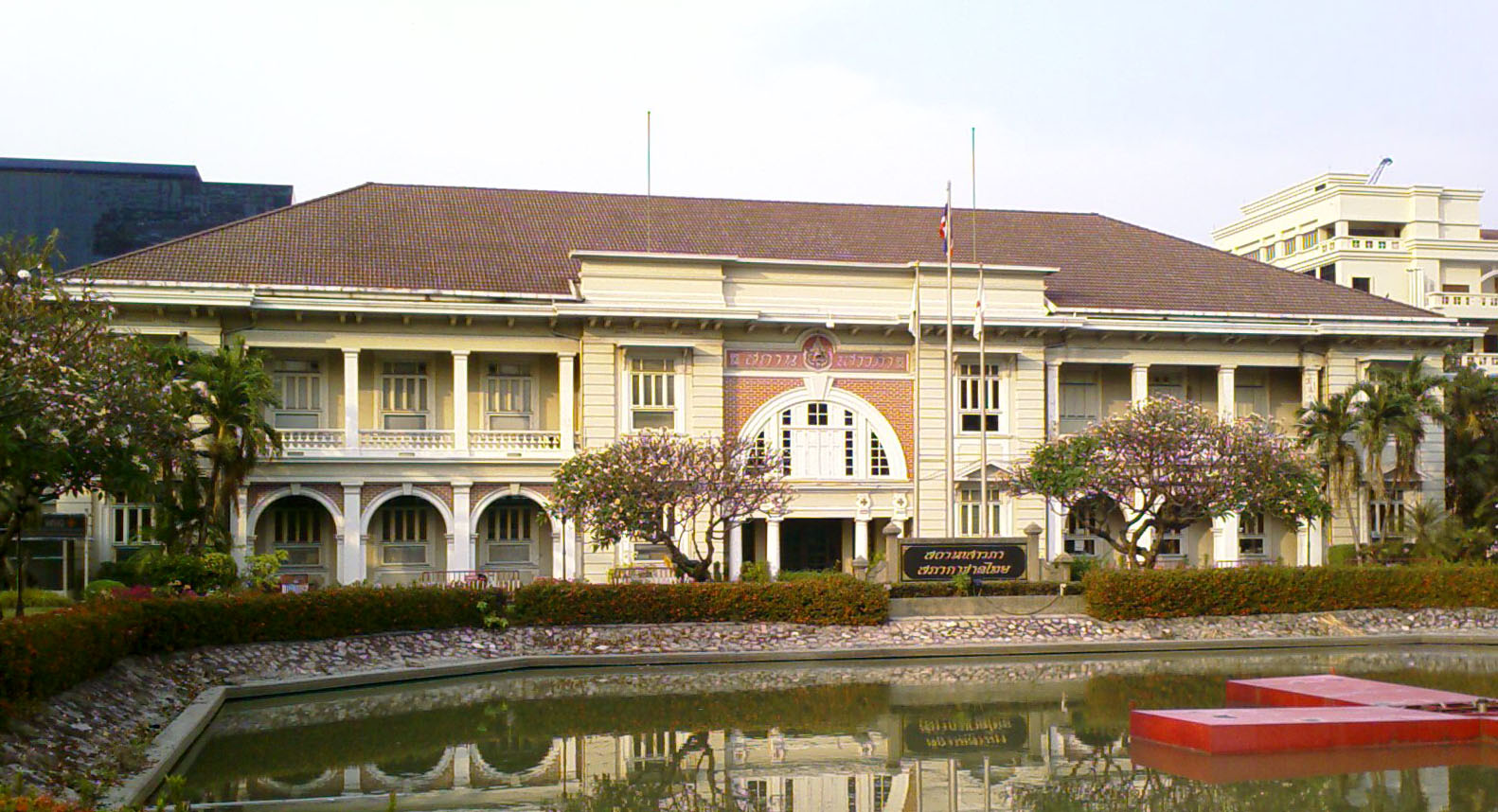 Main building of Queen Saovabha Memorial Institute, the Thai Red Cross Society